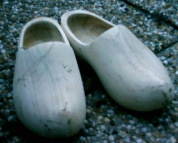 Own picture of my cloggs